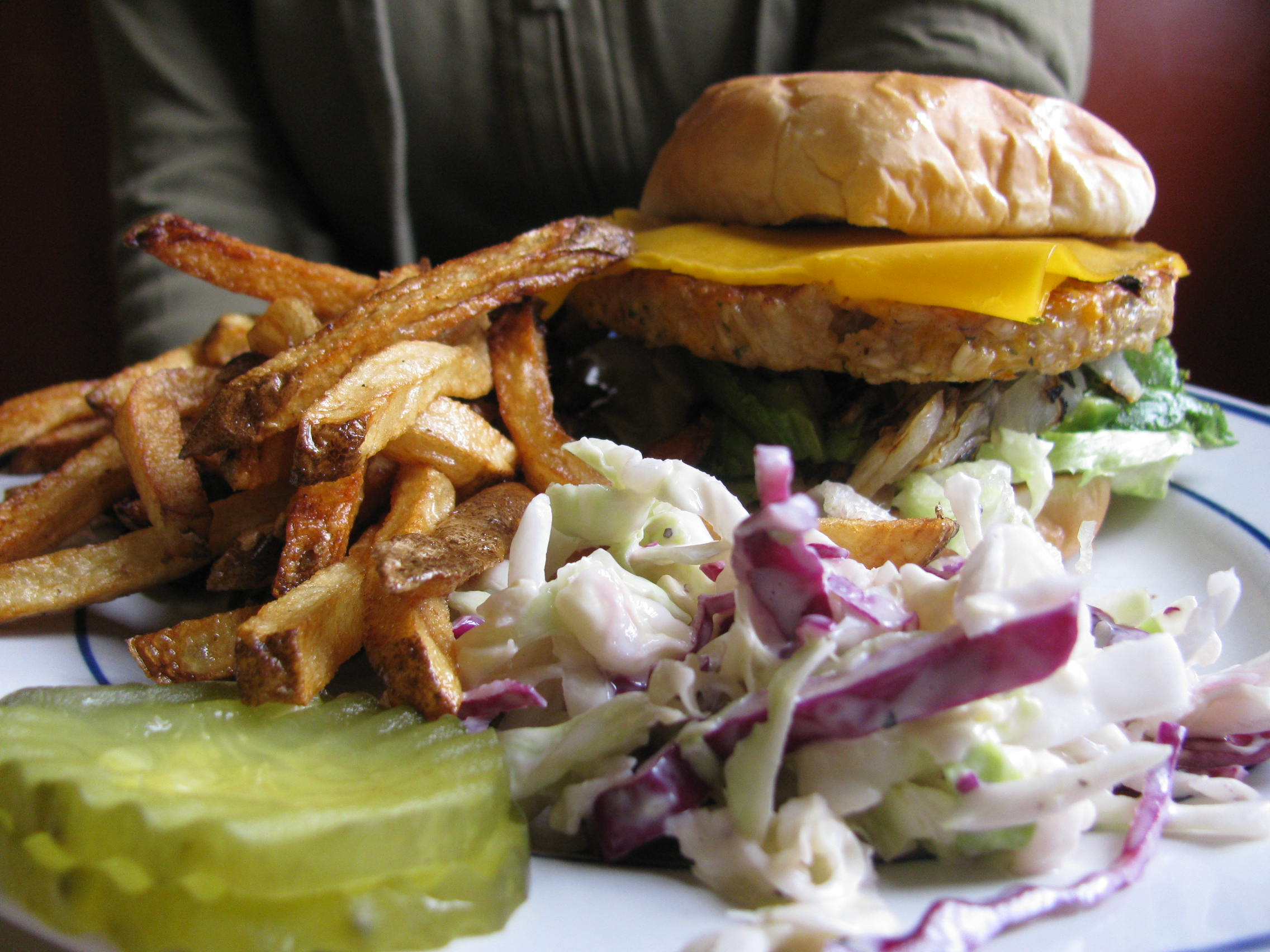 Veggie Burger